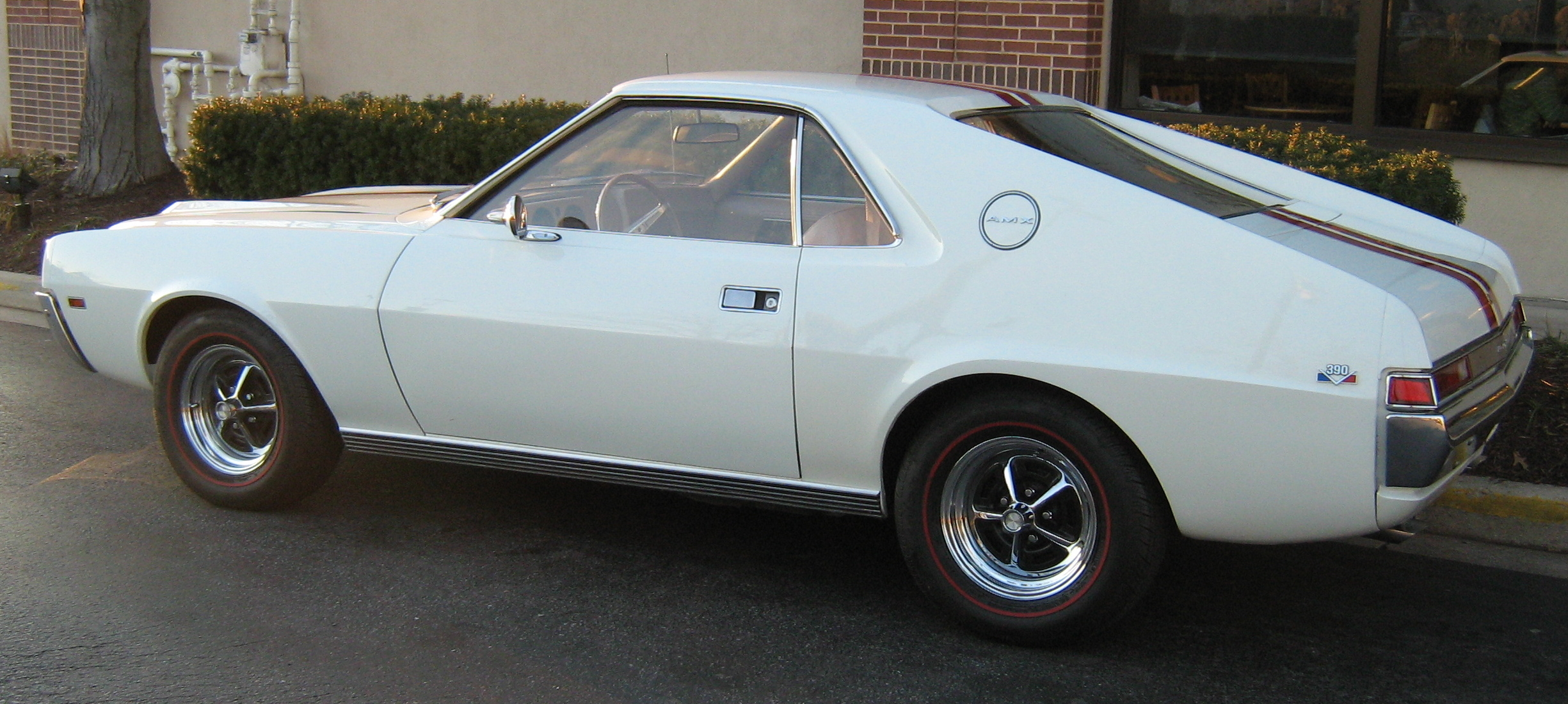 1968 AMX by American Motors Corporation (AMC) two-seat sport coupe. White with red stripes. This car has the optional 390 "Go Package" that included the 390 cu in (6.4 L) 315 hp (235 kW) V8 engine, racing stripes, and other high-performance components. The wheels and red stripe tires are correct for the year.